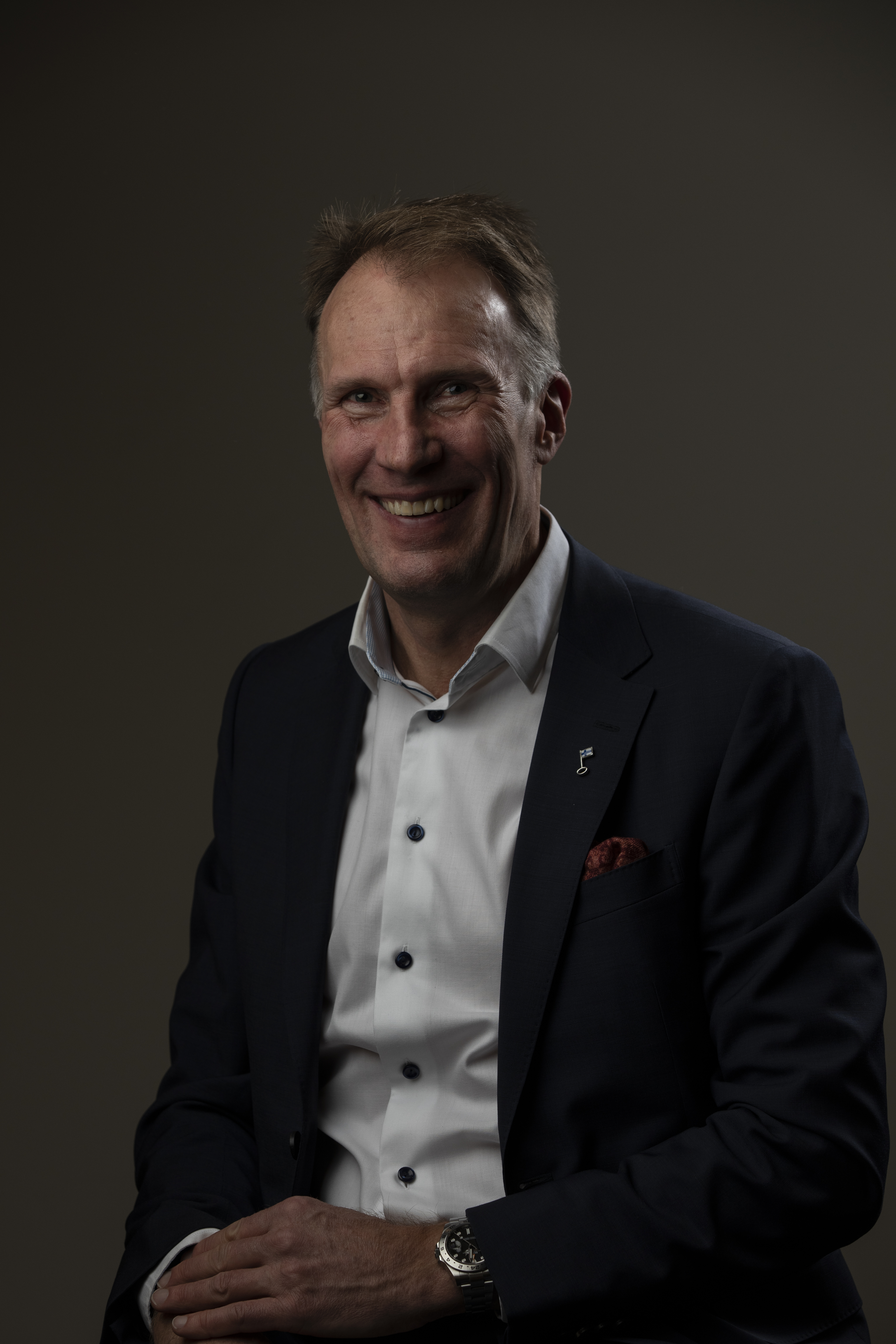 Tapio Pajuharju Managing Director